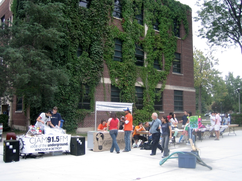 Club activity day at University of Windsor